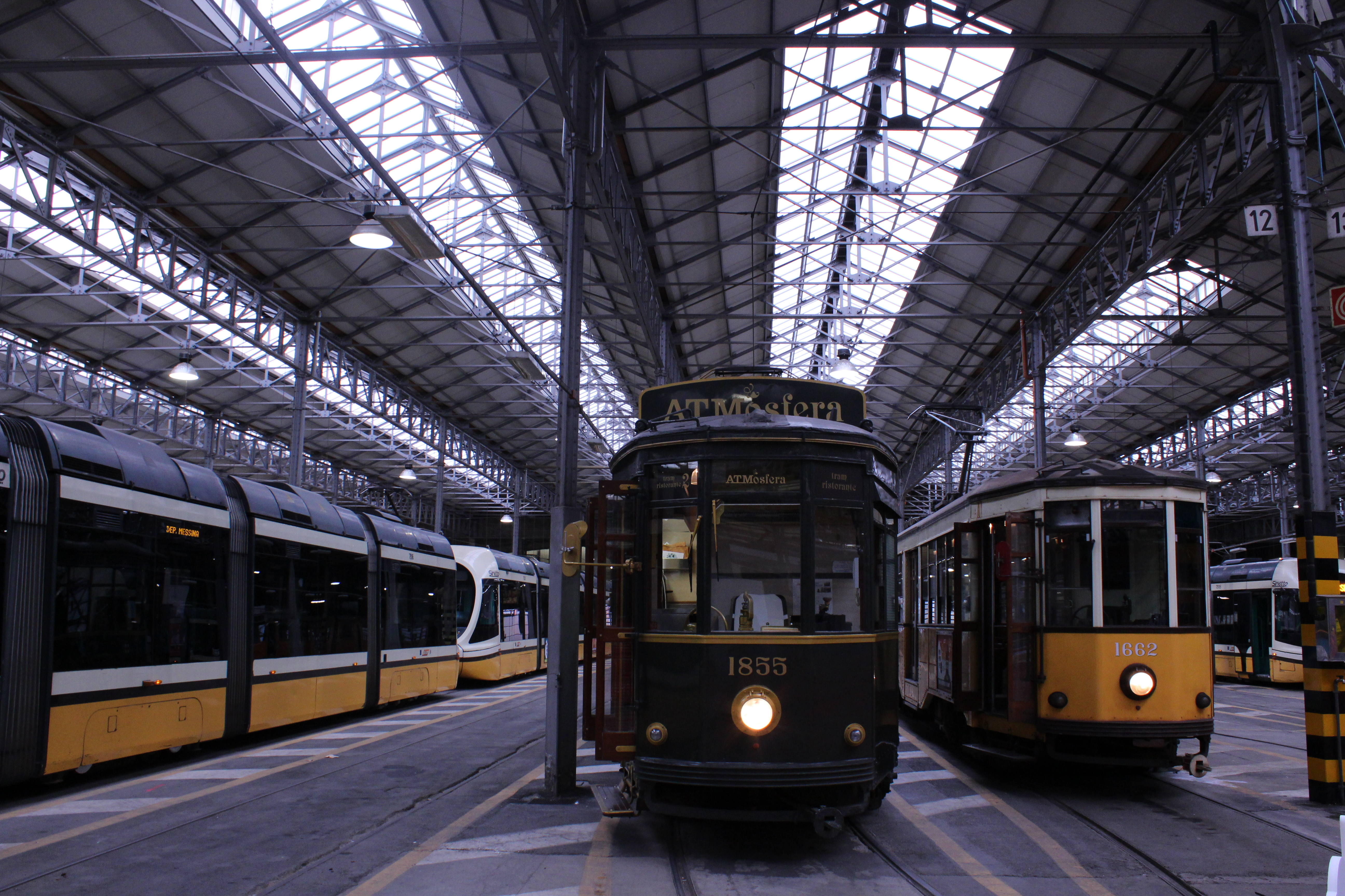 A tram showcased at the Porte aperte ATM held in 2017.